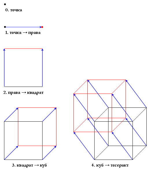 Construction of tesseract (4d hypercube). In Bulgarian.